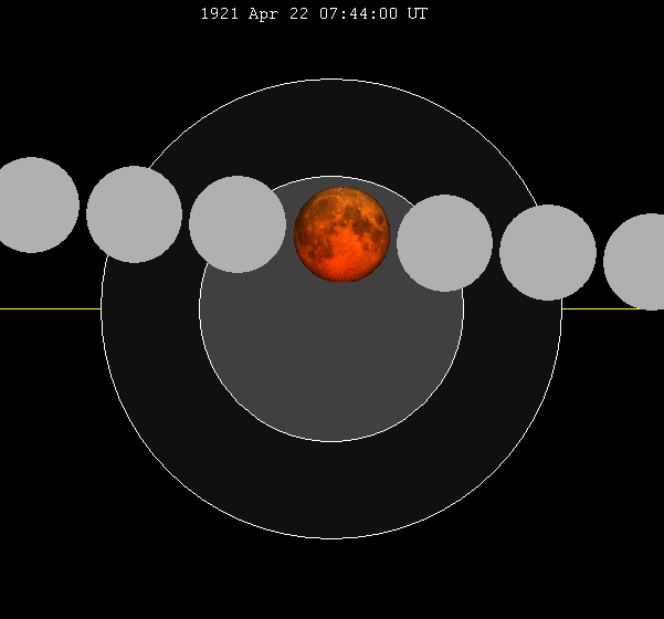 April 1921 lunar eclipse chart of moon's path through the earth's shadow. thumb